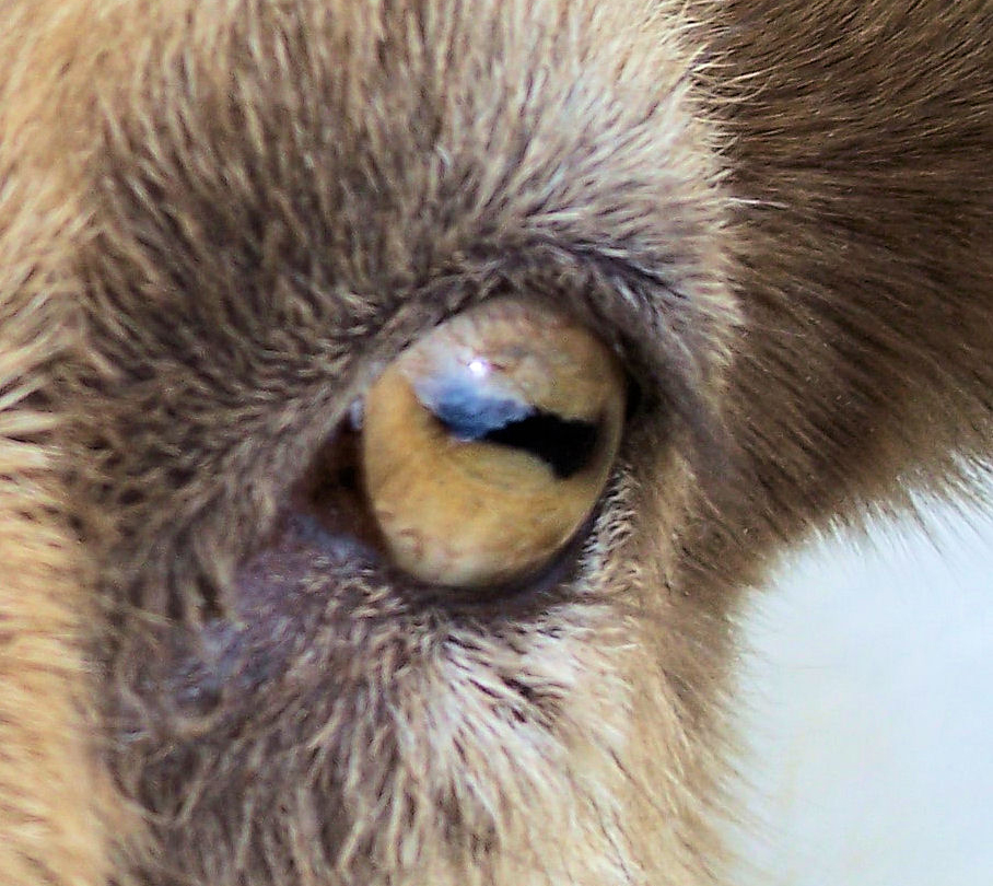 This close up of a goat's eye shows the horizontal pupils that resemble slits or rectangles.